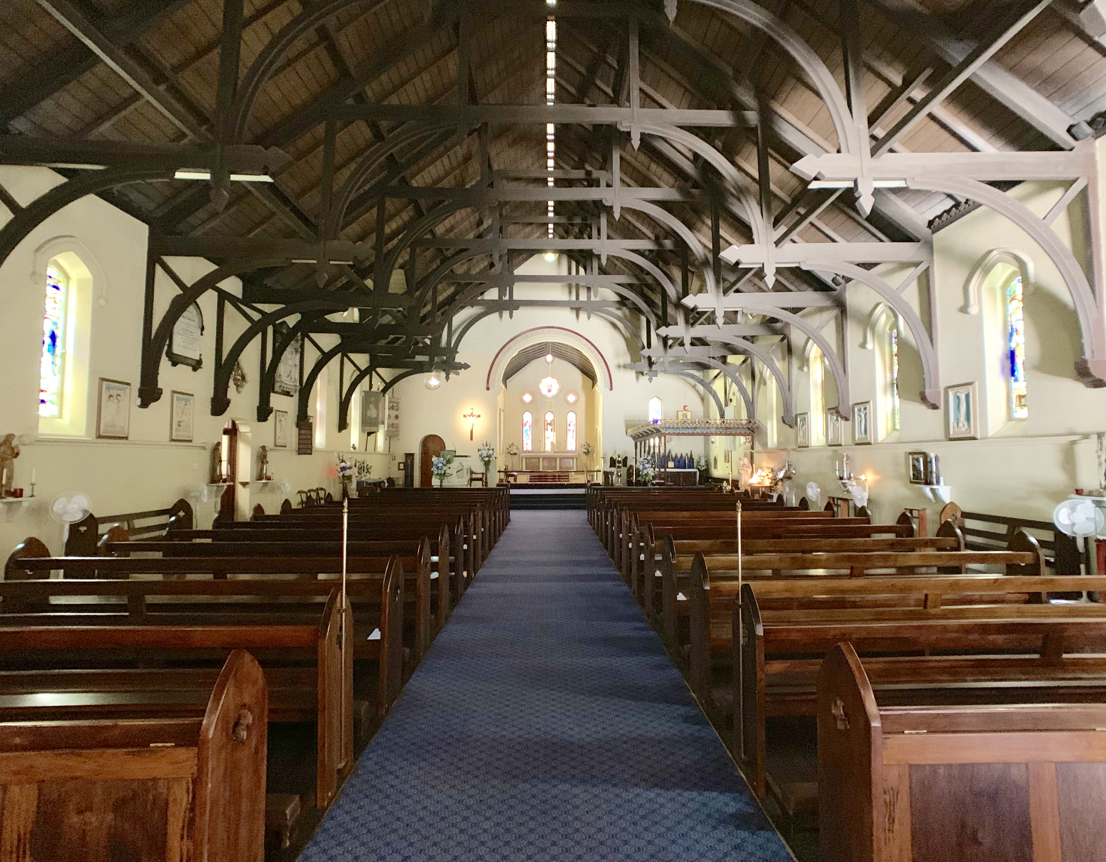 All Saints Anglican Church, Brisbane, Queensland